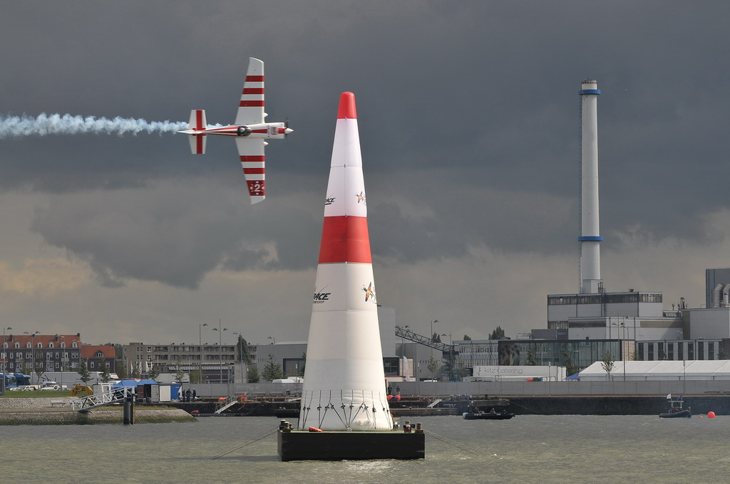 The winner of today's race and leader of the overal list after 4 matches Paul Bonhomme (England). The aircraft is a Zivko Edge 540.